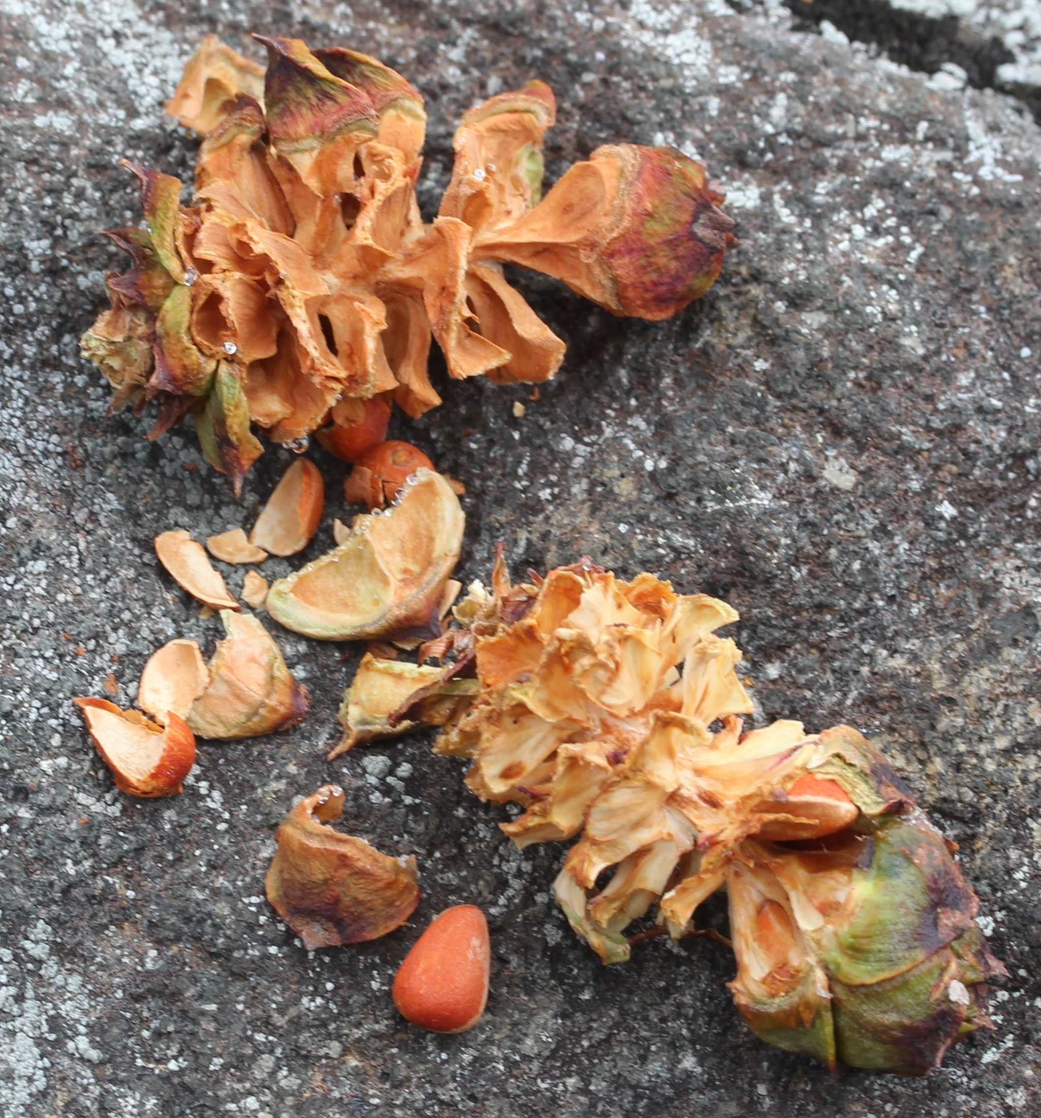 Conifer cone of Pinus pumila (Pall.) Regel eaten by Nucifraga caryocatactes, in Mount Ontake, Japan.